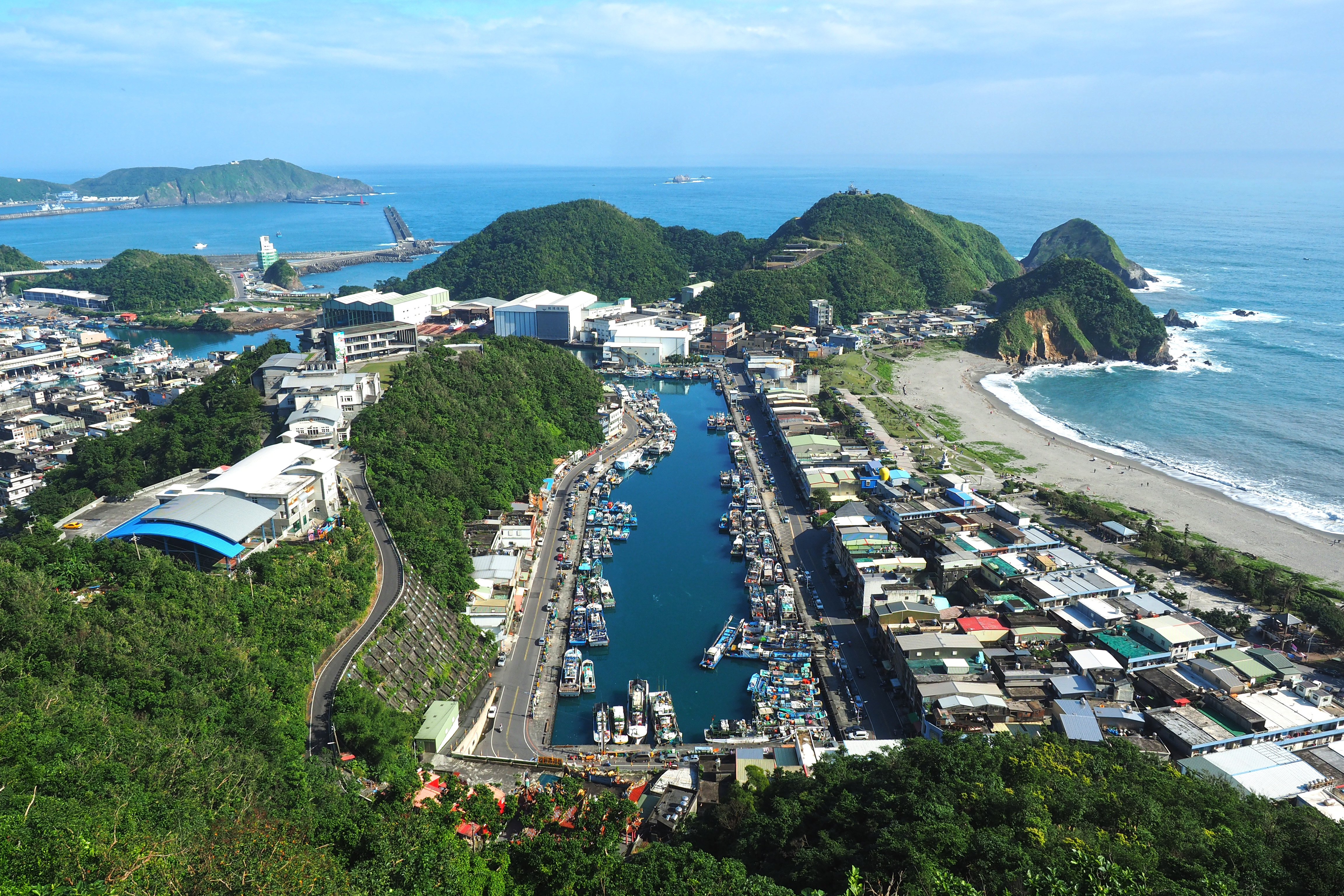 Neipi Port of Su Ao, Yilan County, Taiwan